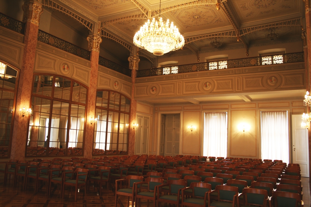 Revival hall Zagreb